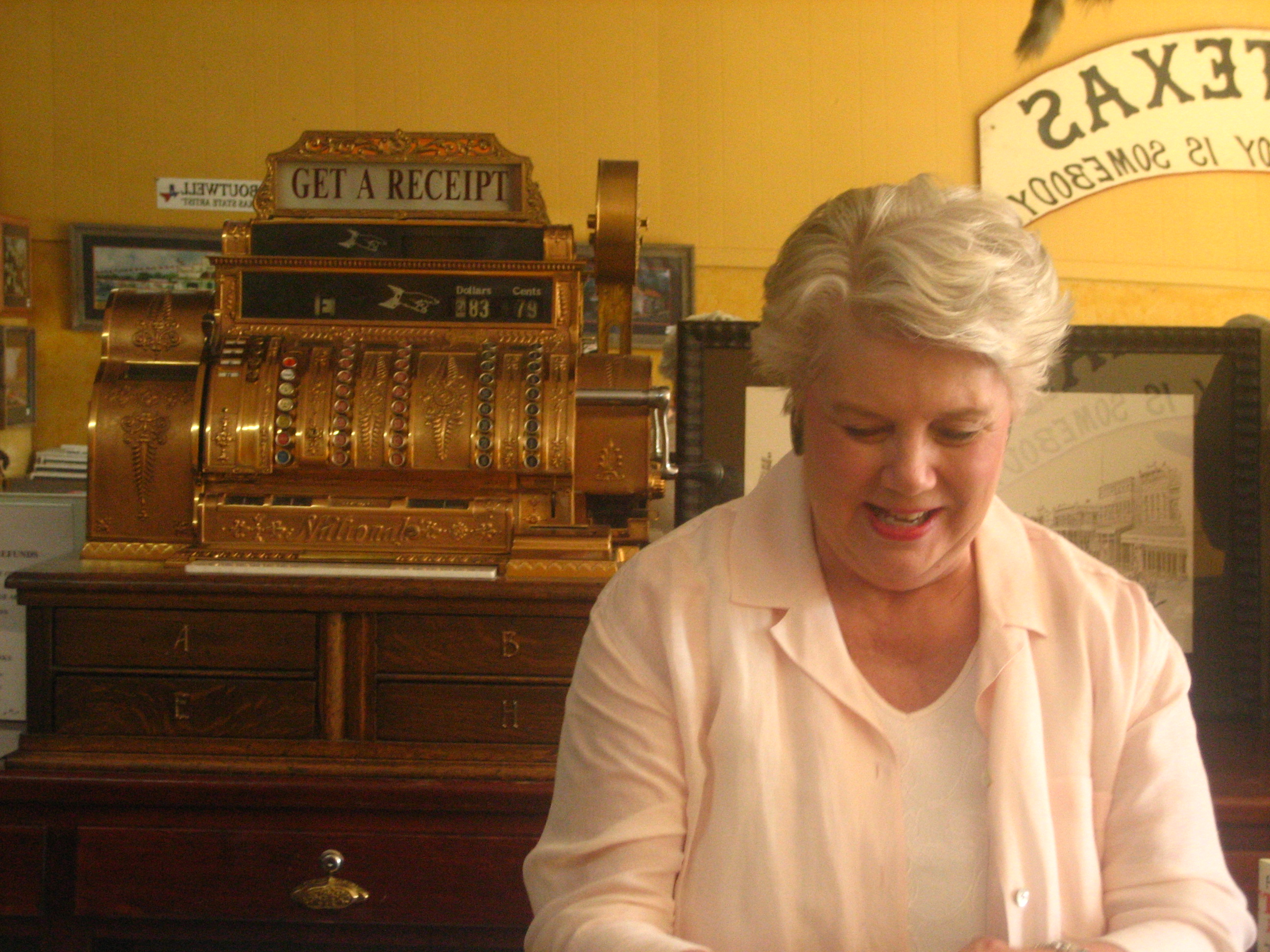 I took photo on July 17, 2008.Billy Hathorn (talk) 03:49, 26 July 2008 (UTC)